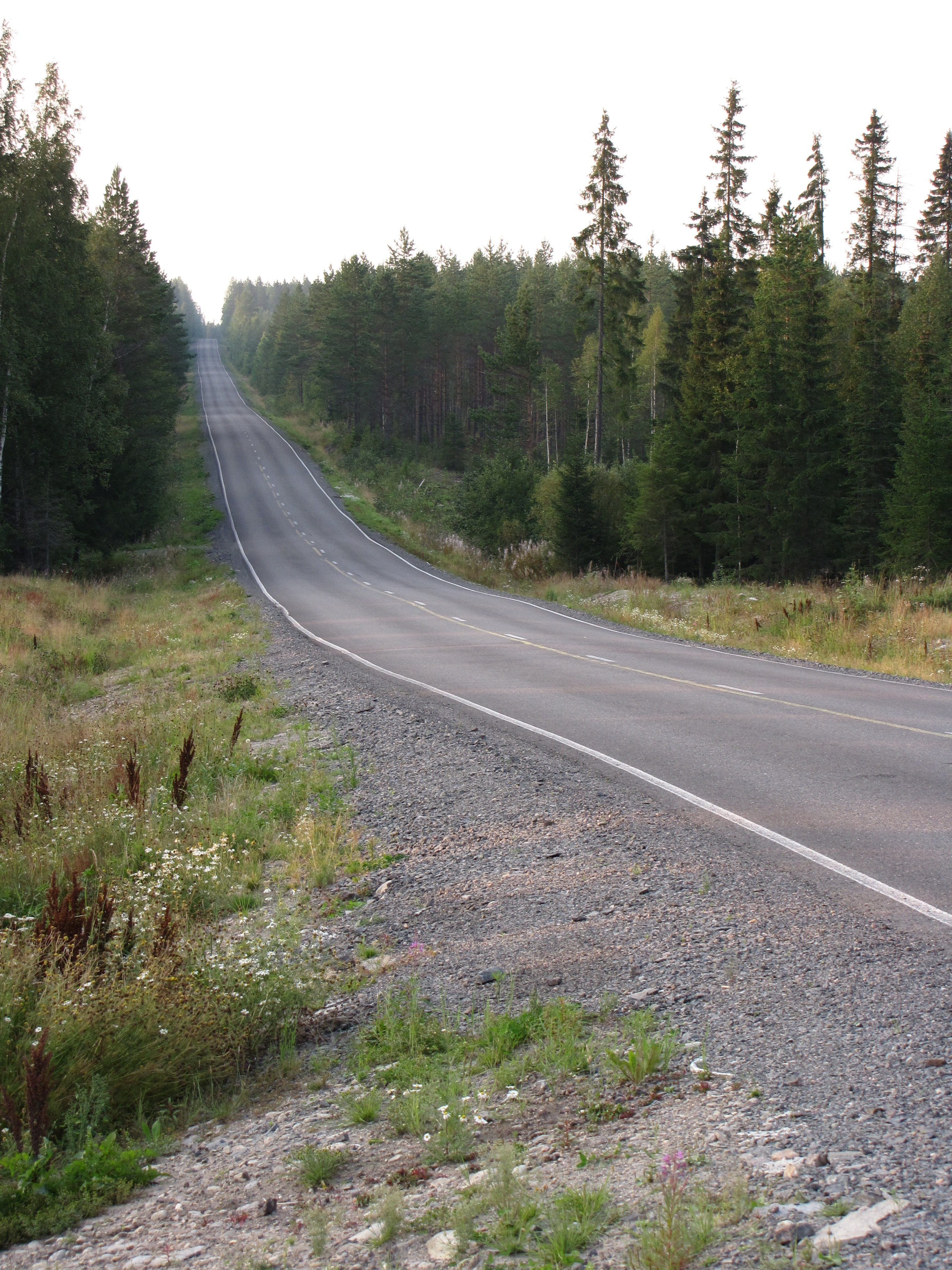 Regional road 687 in Karijoki, Finland.